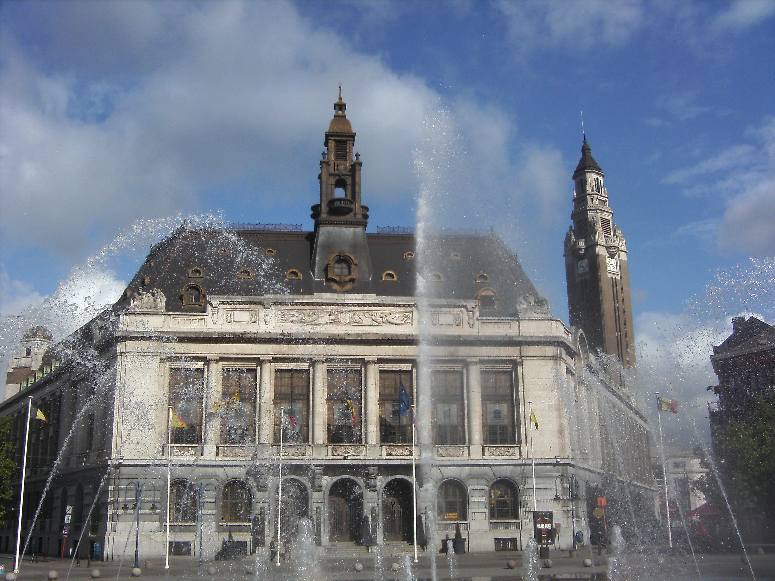 Town Hall of Charleroi, Belgium